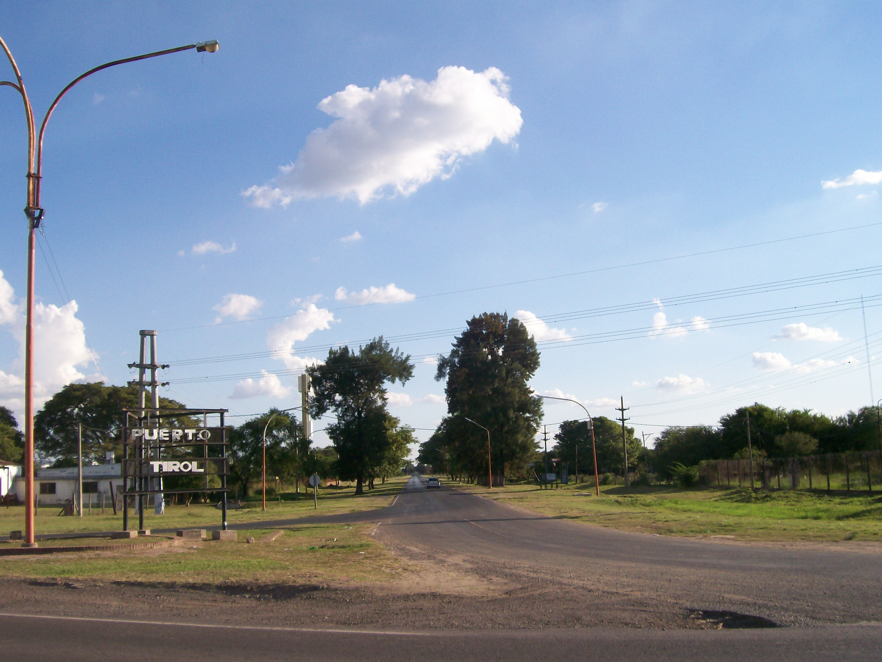 Main entry to Puerto Tirol town (Chaco Province, Argentina) seen from National Road 16. Town center is approximately 3 kilometers from here.